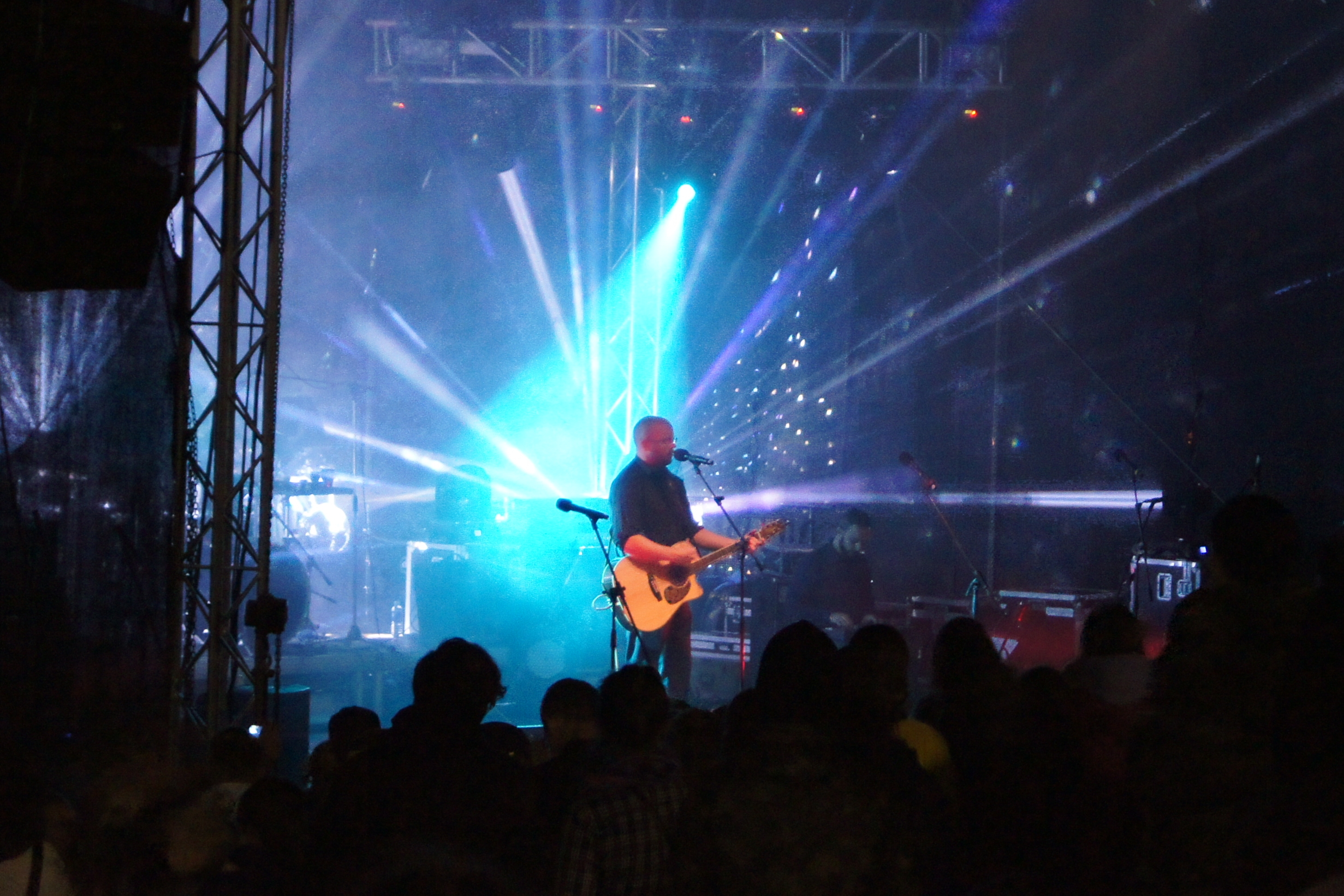 Rome